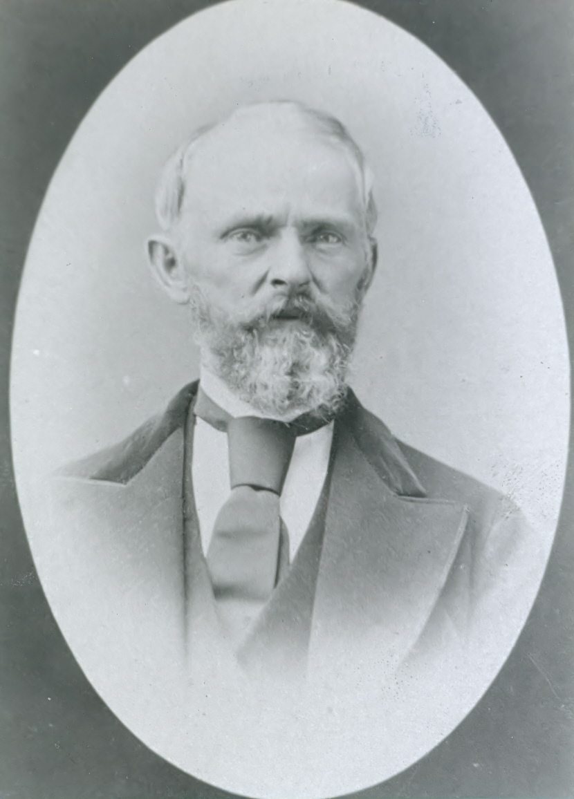 John Rex Winder (1821-1910) middle aged in the 1870s.